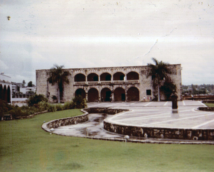 Alcazar de Colon